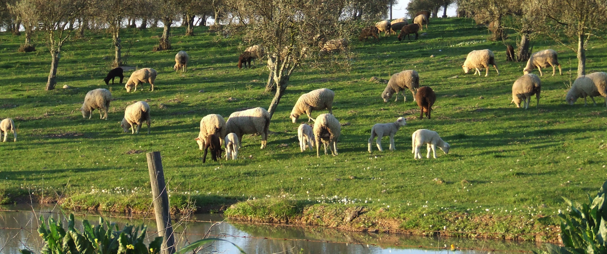 Sheep grazing near Castro Verde